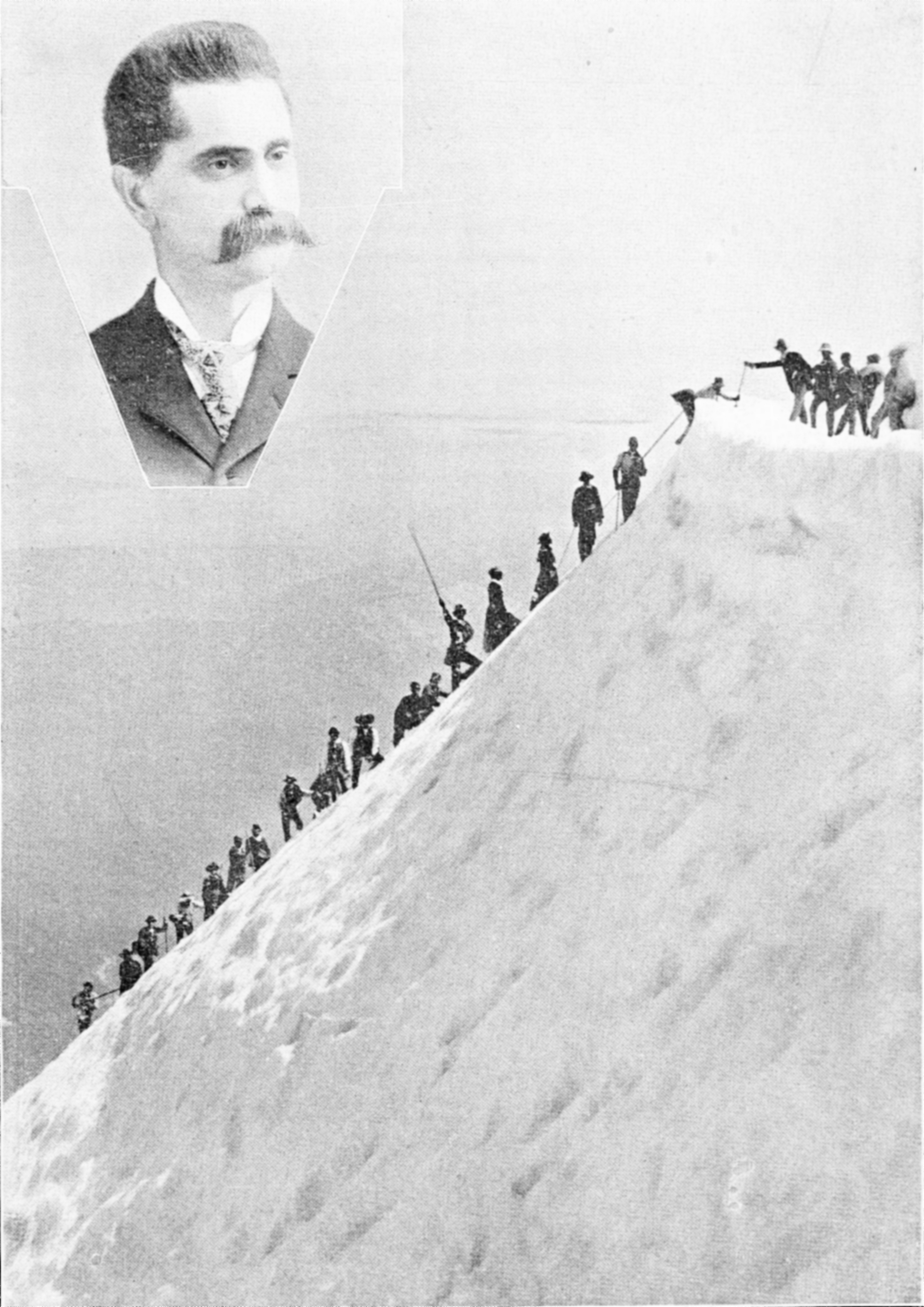 W. G. Steel, president of the Mazamas, and an ascent of Mt. Hood